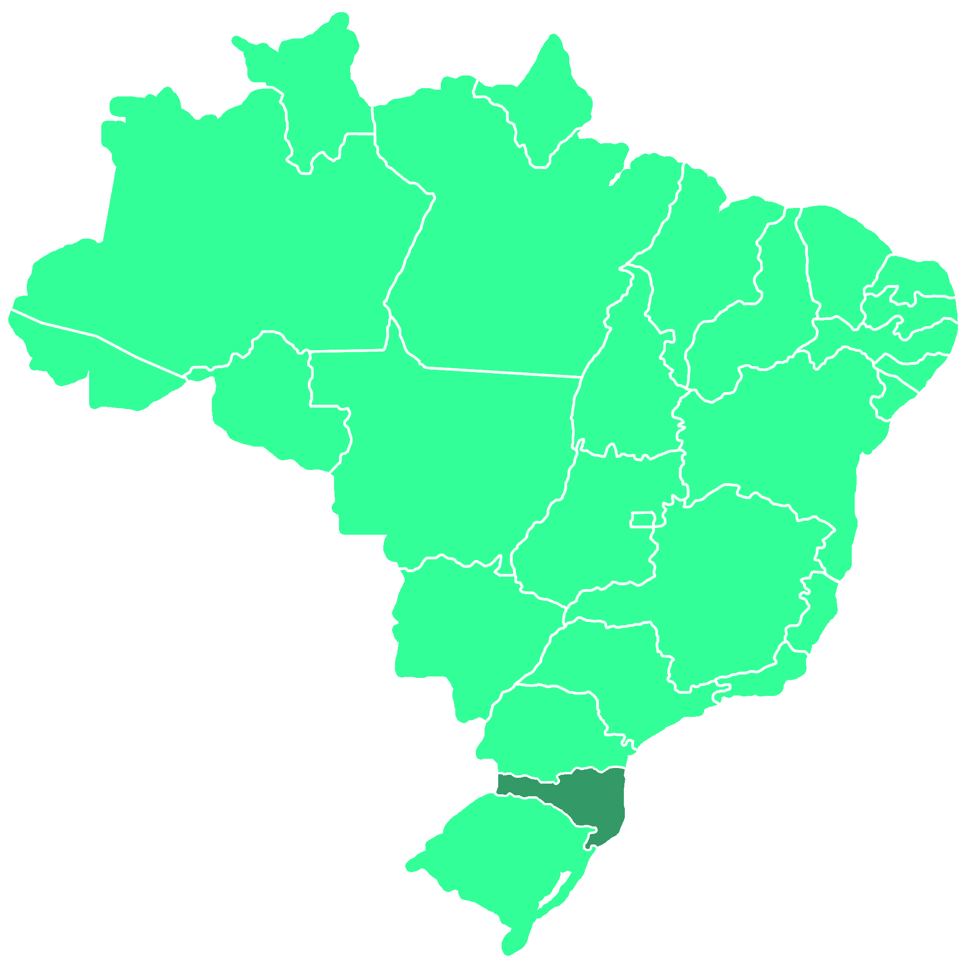 Location of the state within Brazil.